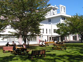 AIU main building